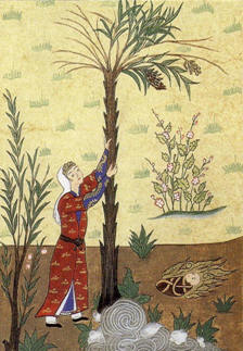 Virgin Mary nurtured by a palm tree, as described in the Quran.